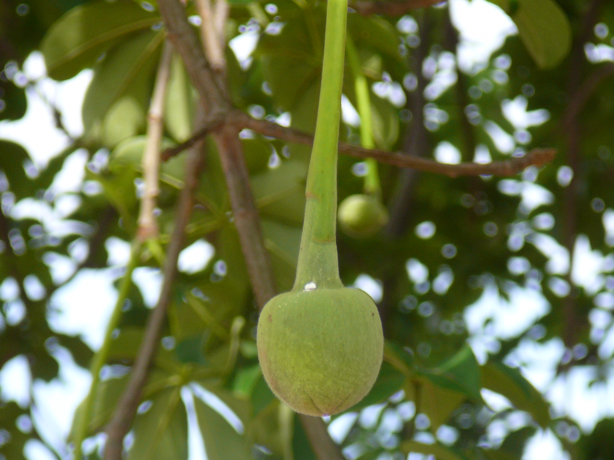 Adansonia digitata, flower bud